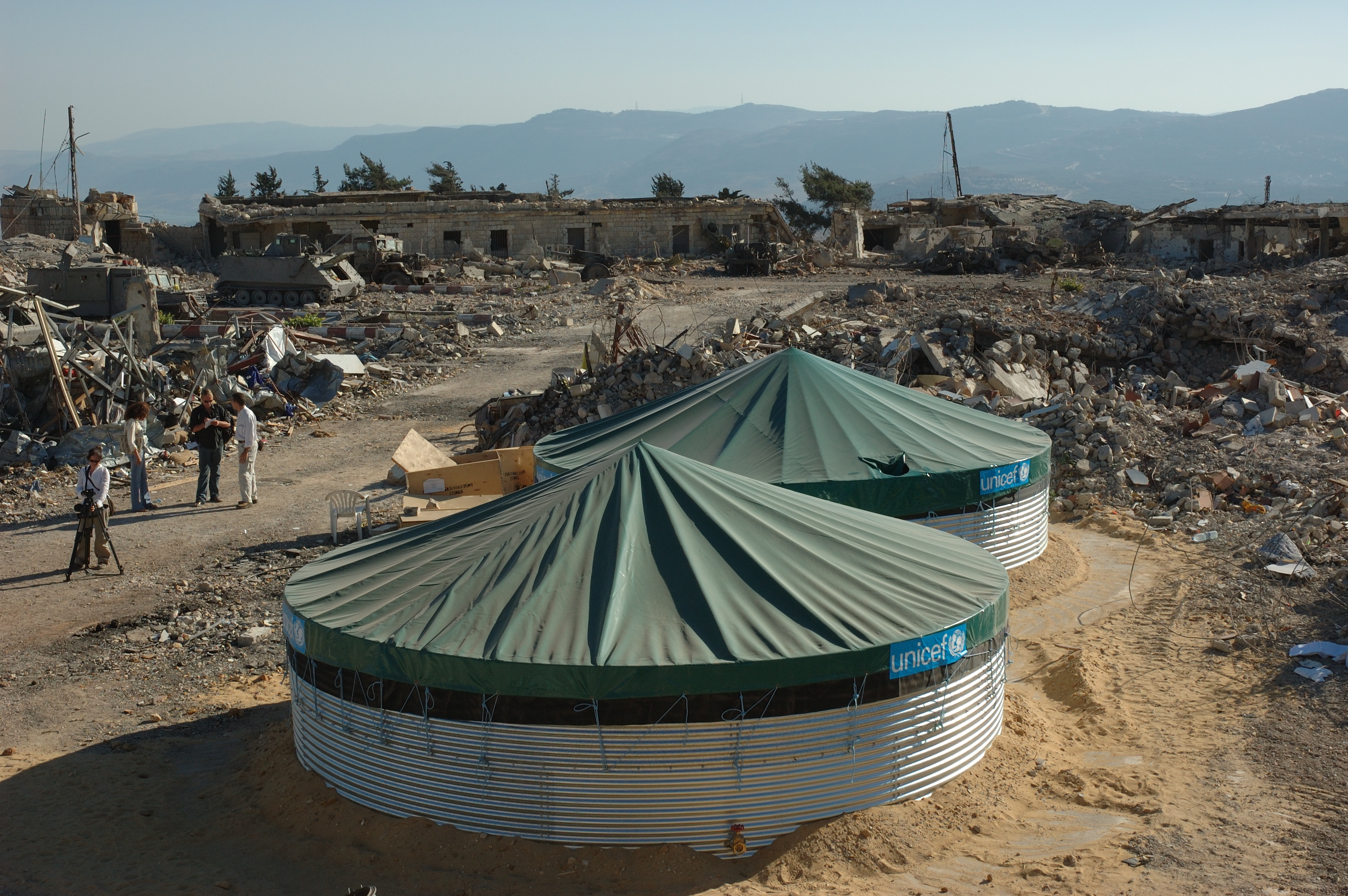 El Khiam UNICEF Tanks in the Ex Khiam detention center